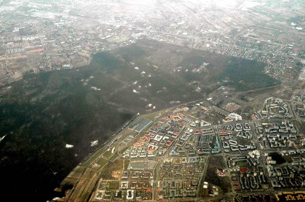 Kabacki forest on the outskirt of Warszawa, Poland. Photograph by Henryk Kotowski in February 2007.